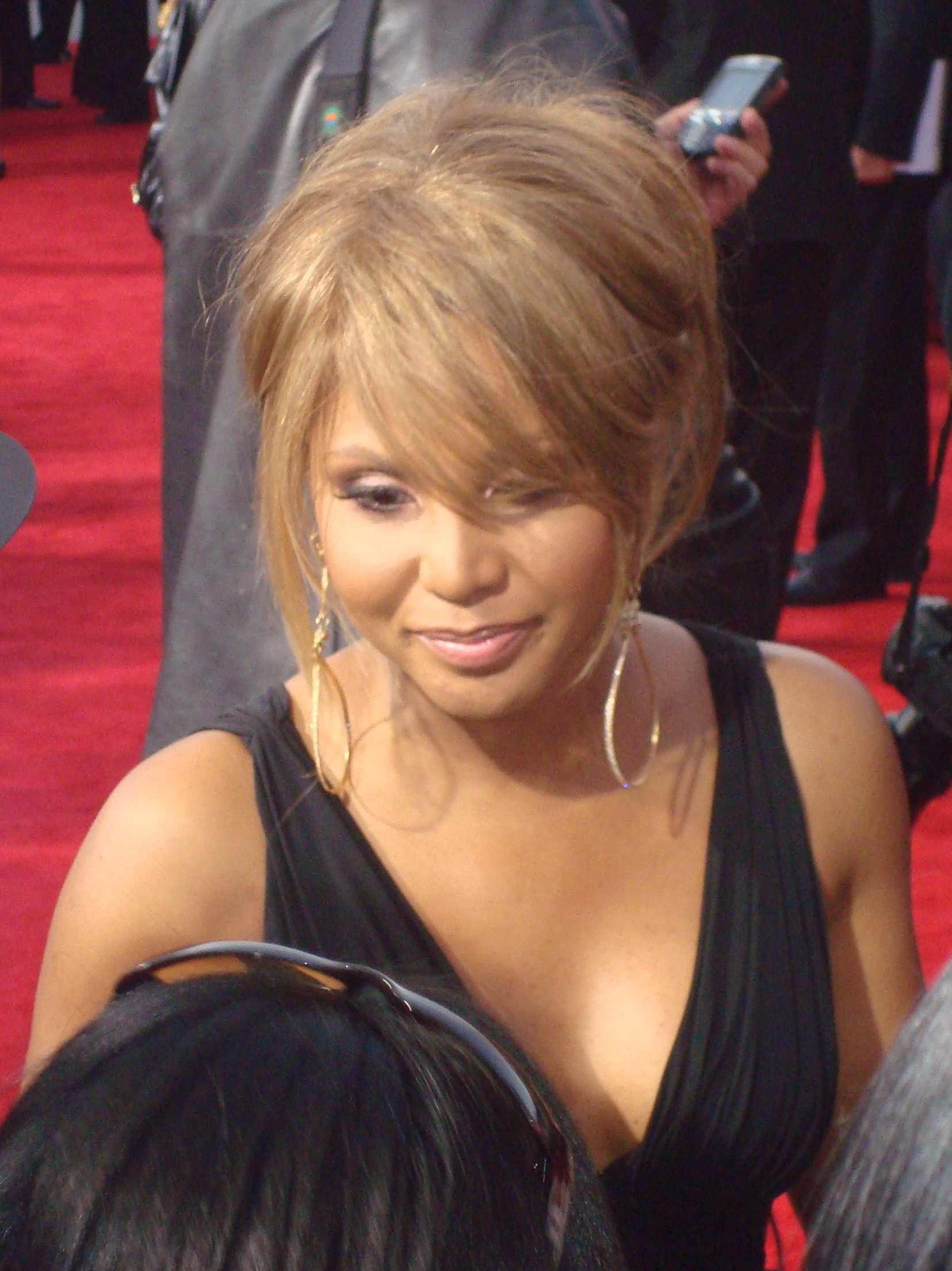 Toni Braxton at the 2009 American Music Awards Red Carpet